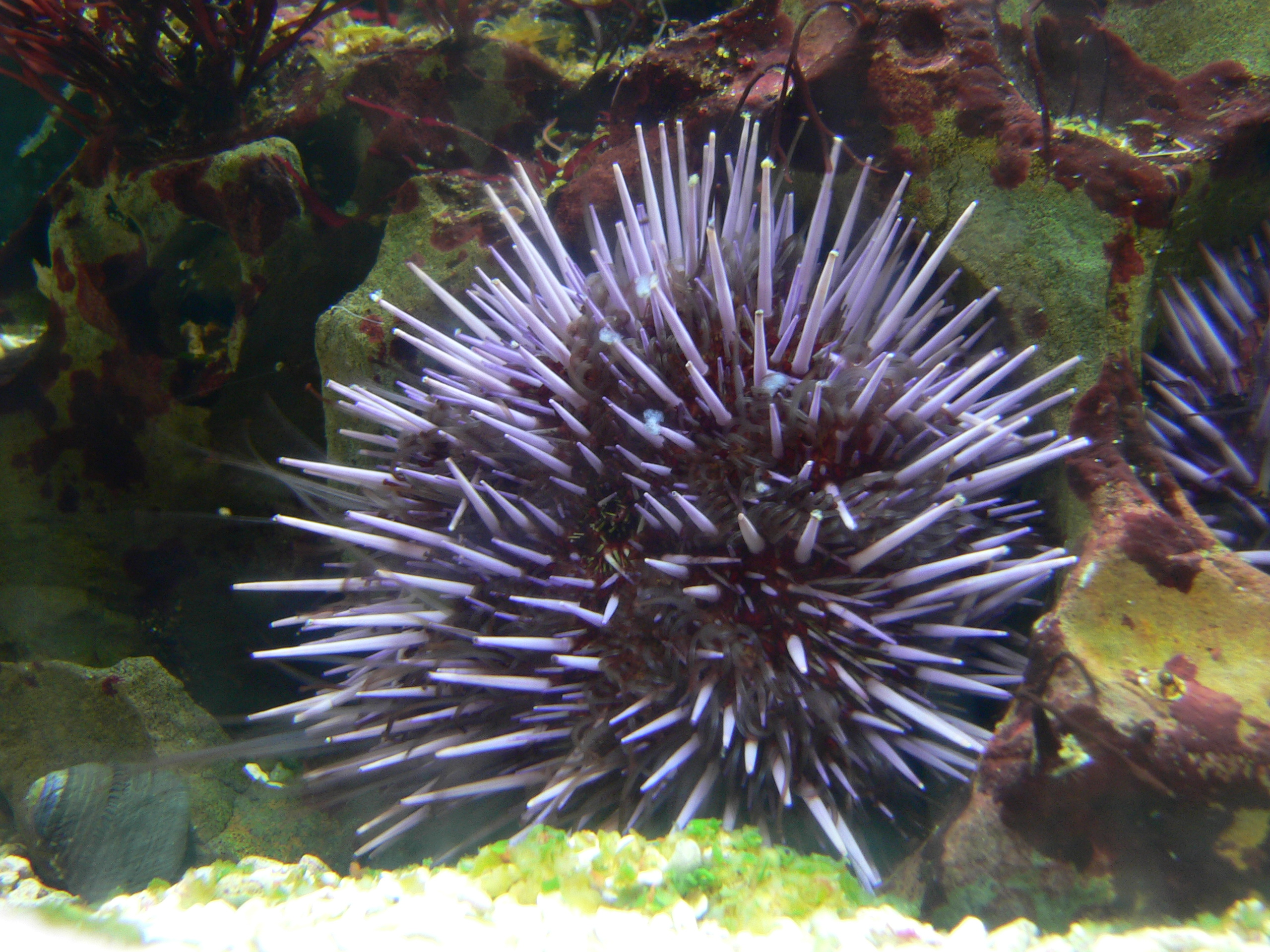 Strongylocentrotus purpuratus in an aquarium at Natural Bridges State Beach, Santa Cruz, California